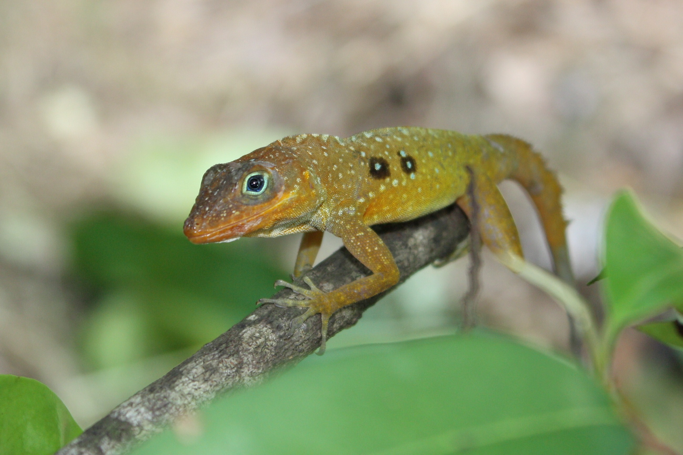 Dominican Anole (Anolis oculatus); male, Montane ecotype (A. o. montanus). Molting skin is visible on its head. Brandy Manor (near the Brandy River), Dominica.